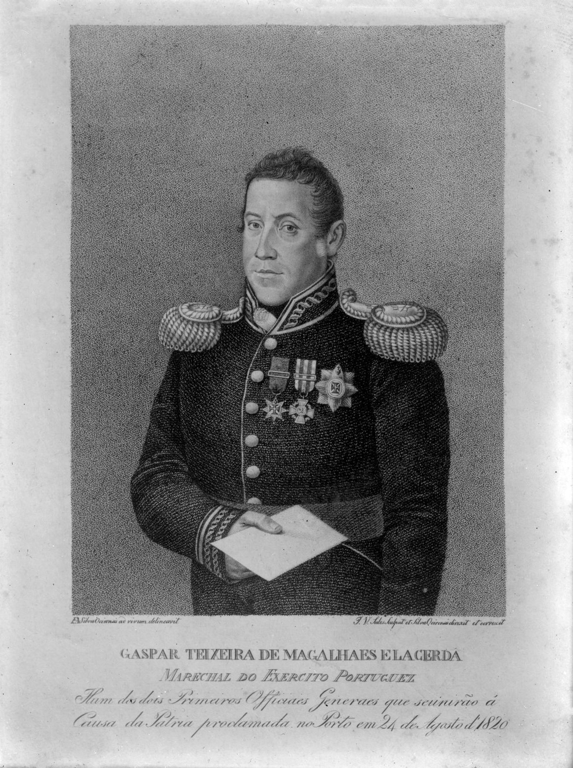 Gaspar Teixeira de Magalhães e Lacerda, 1st Viscount of Peso da Régua (1763-1838), more commonly known as General Gaspar Teixeira.